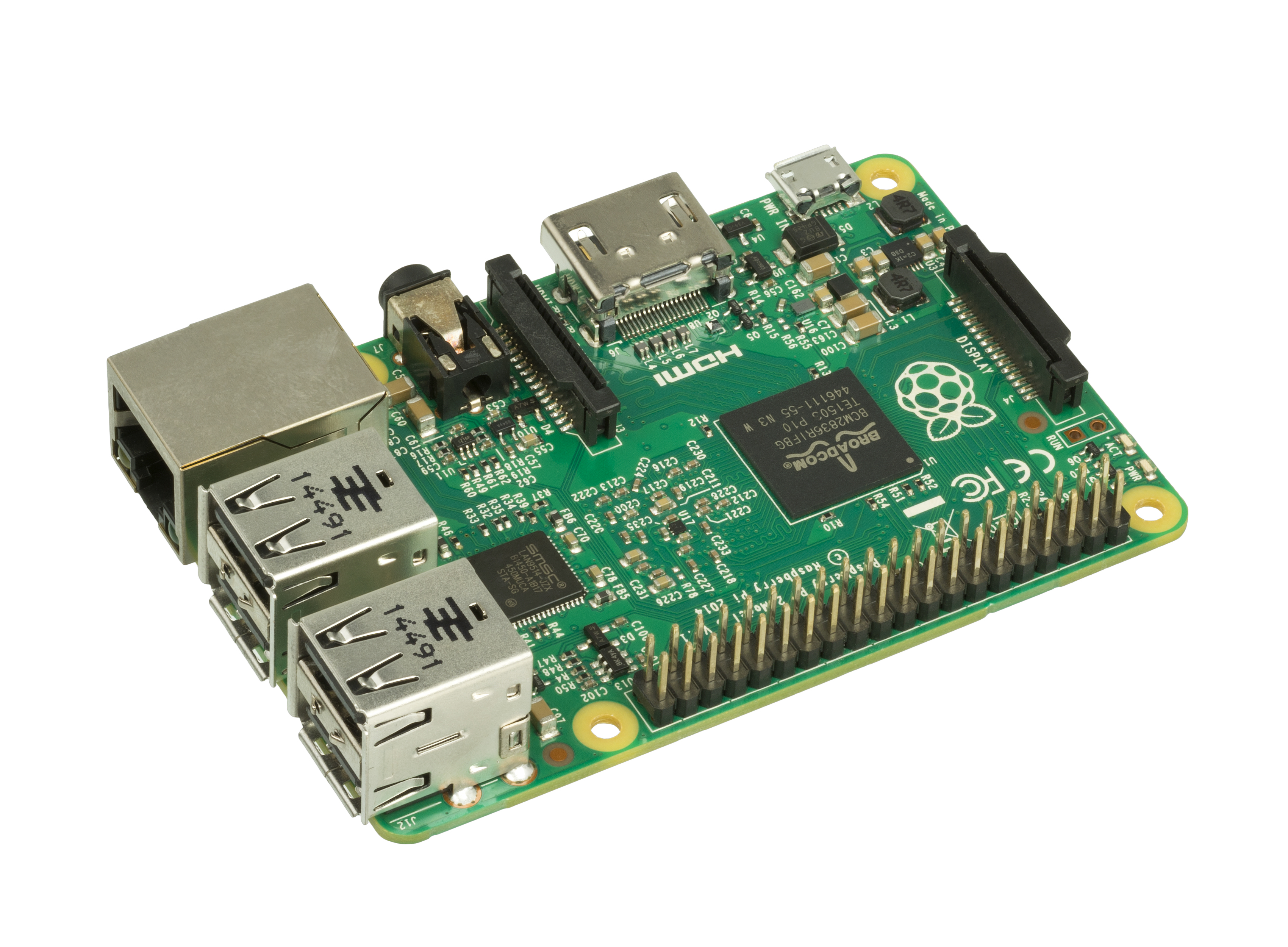 The Raspberry Pi 2 (model B), showing a four USB 2.0 ports, an Ethernet port and expansion pins. The Raspberry Pi 2 is an inexpensive ($35) and self-contained micro-computer that features a 900 MHz, 32-bit quad-core ARM processor and 1 GB of RAM. Built by the Raspberry Pi Foundation, it is designed to be an easy and accessible platform to promote computer science. The Pi has also become a popular computer for hobbyists, who use it for personal projects, video game emulators and digital media playback.